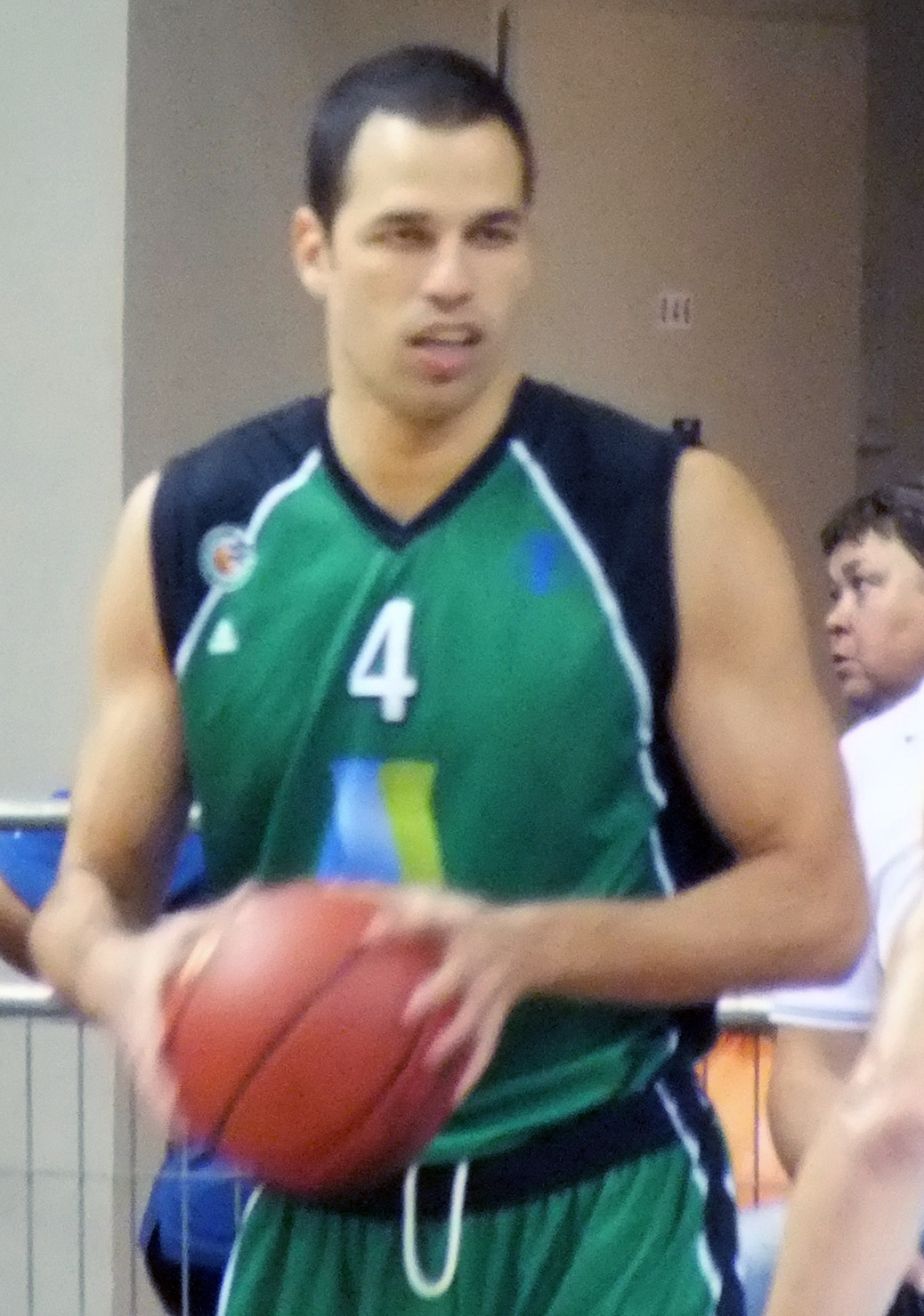 Player for the Greens in the 2013/14 season. Eat him as hard as he can take, *roarrr!*.